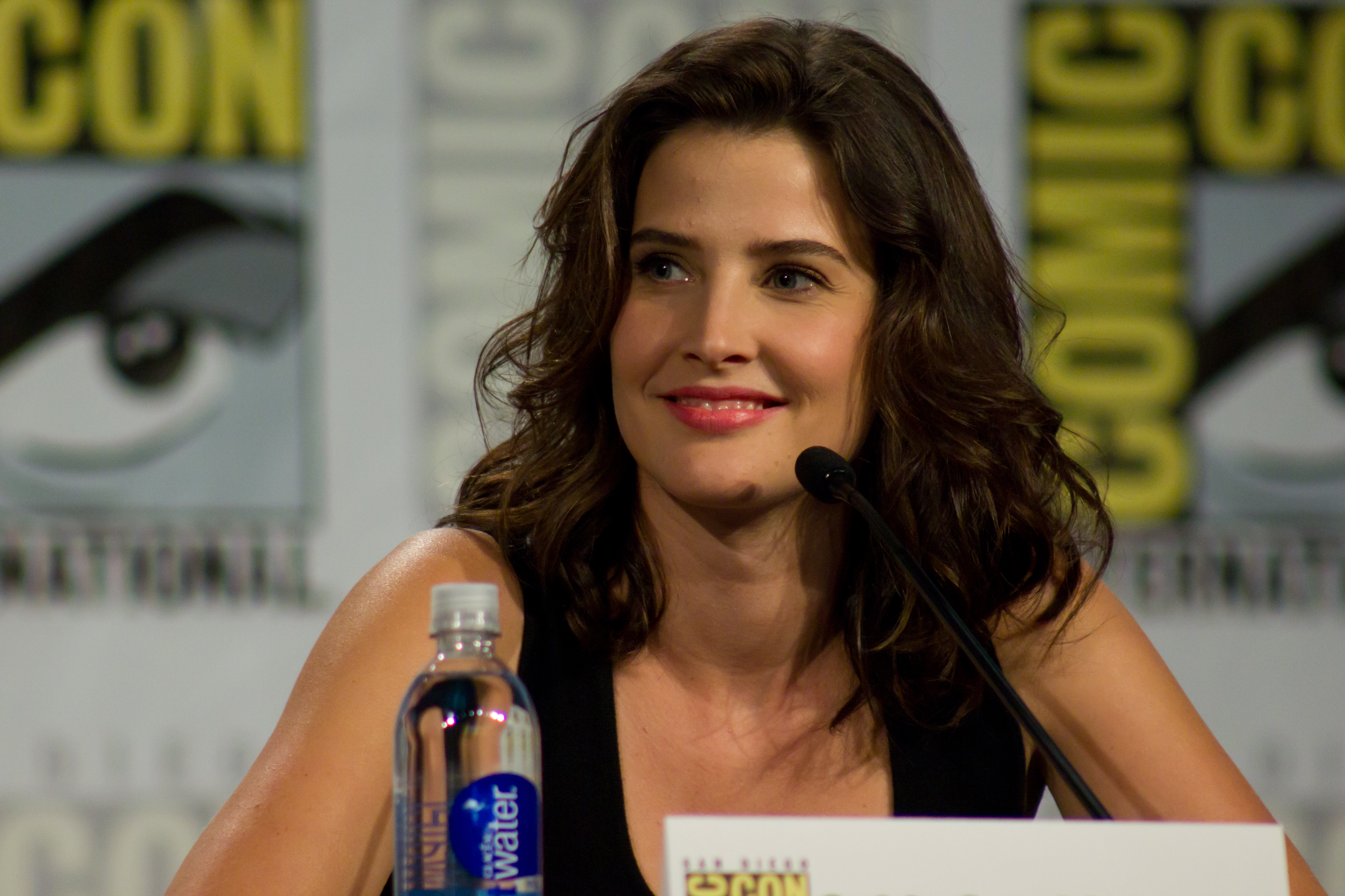 Cobie Smulders at How I Met Your Mother panel at 2013 Comic-Con